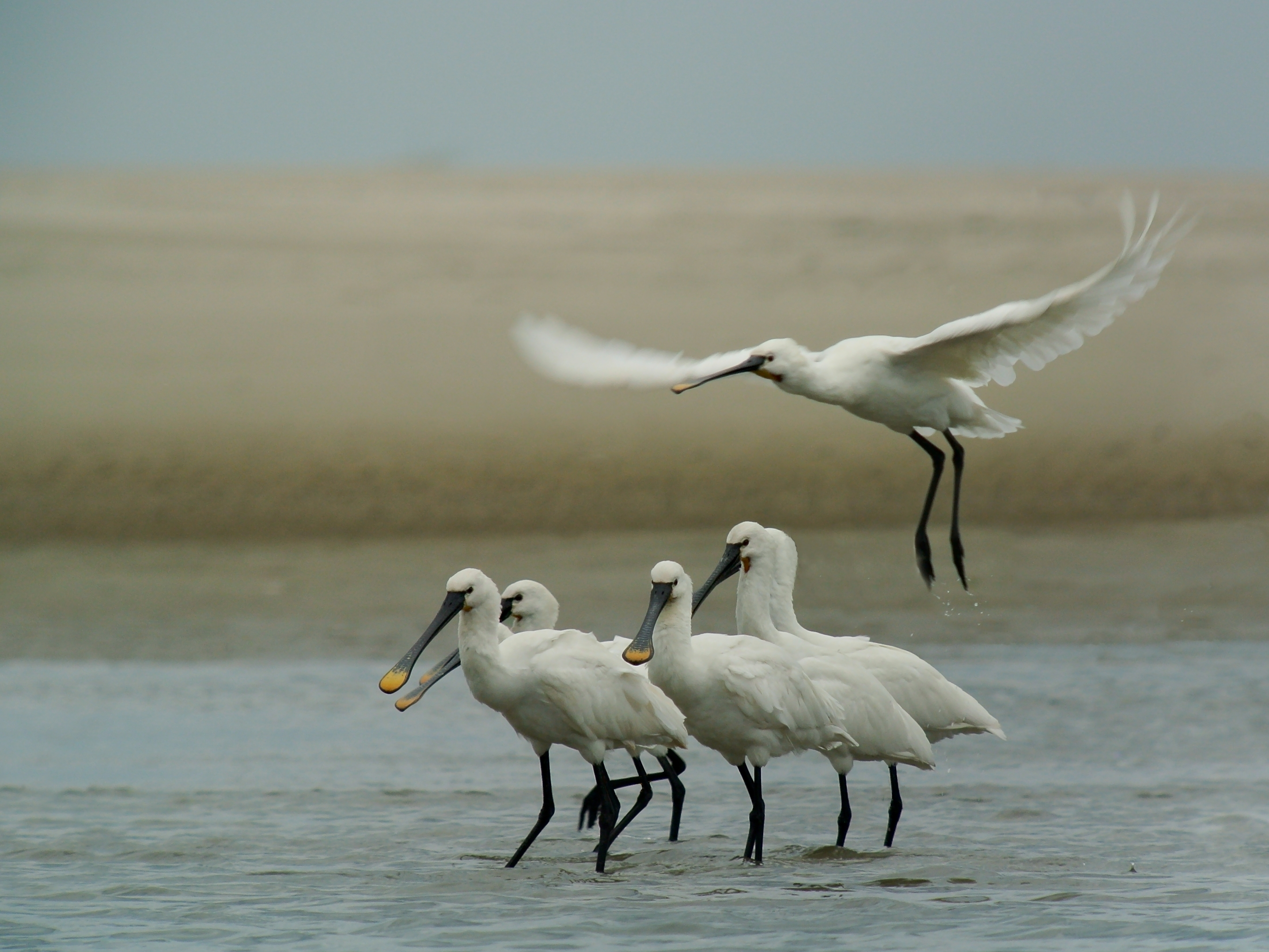 Eurasian Spoonbills in a shallow coastal lagoon on the Dutch Waddenzee island of Schiermonnikoog (Special Protection Area NL9801001 - Waddenzee) Digiscoping with Swarovski ATM 80 HD 30 X, Nikon 1V1 + 10-30 mm lens (Adapter DCB)